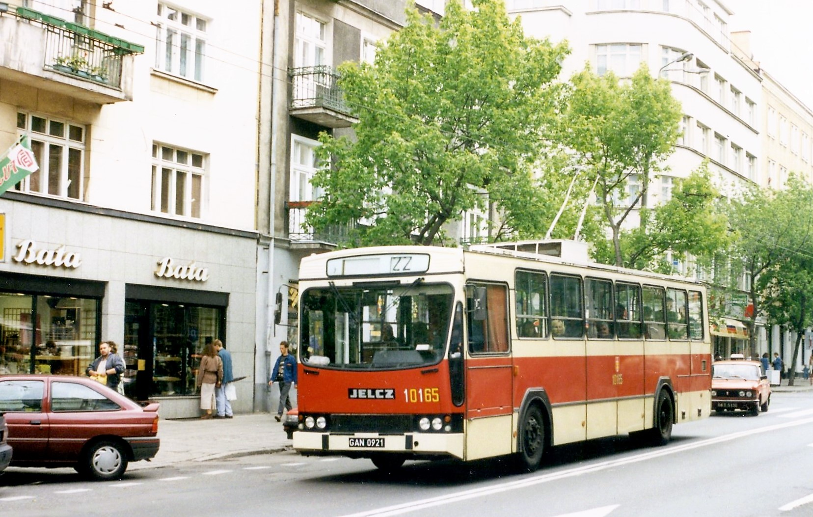 Jelcz 120ME Trolleybus 10165 , GAN 0921 on Route 22, outside Bata shoe shop. new in 1993 to MPK/MZK Gdynia in 1993, it was operating for PKAiT Gdynia at the time, before renumbering as 3365 for PKM, later PKT Gdynia. It ran until 2006 when it was scrapped. Details here Some more recent photos of 10165 are at the phototrans site Only 6 of these Jelcz 120ME were operated.